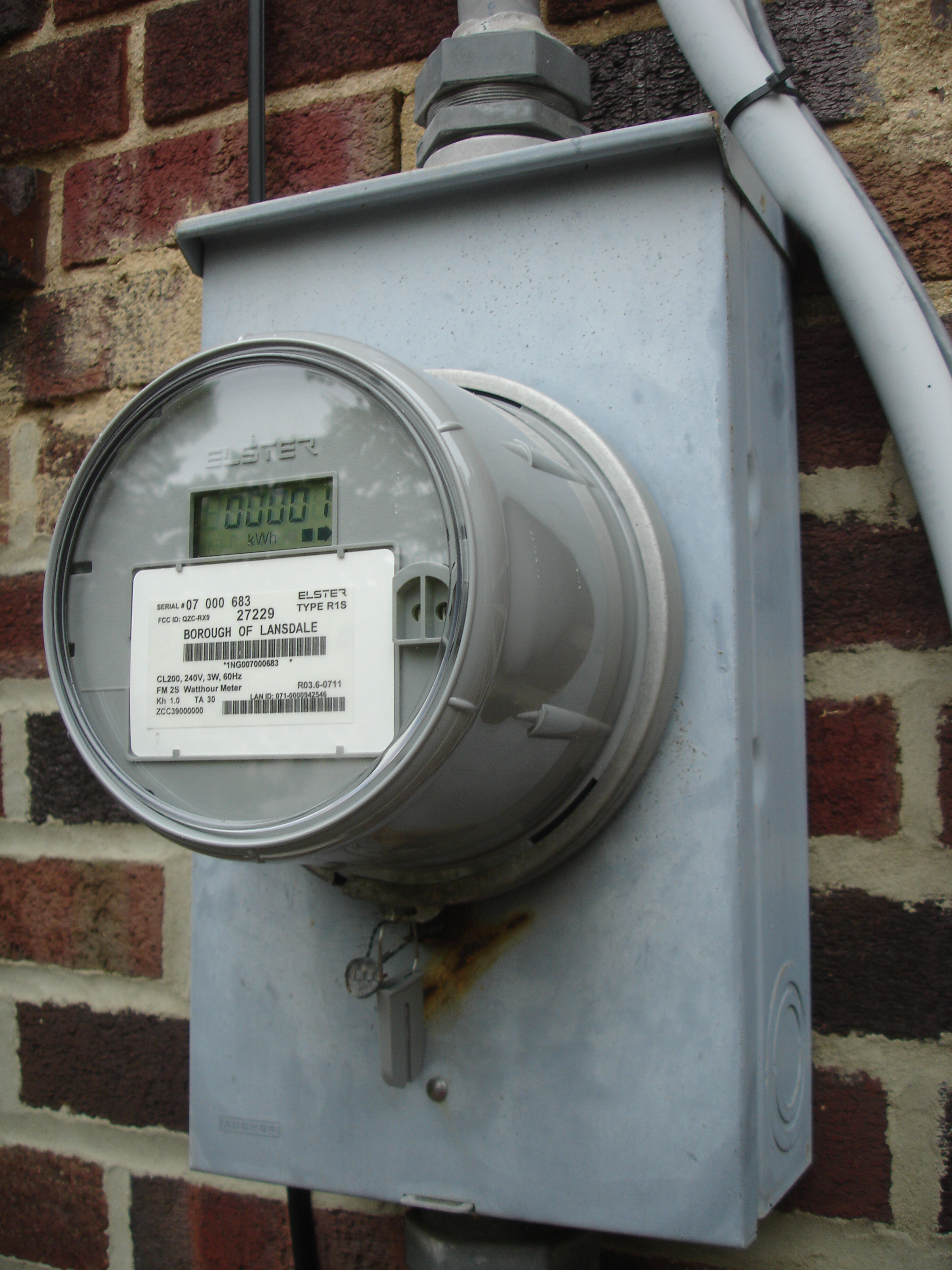 Newer retrofit US domestic digital electricity meter Elster REX type R1S single-phase kWh smart digital electricity meter, upgraded from analog to facilitate automatic meter reading (AMR). It uses a 900MHz Frequency Hopping Spread Spectrum (FHSS)[1] mesh network topology and 128-bit AES encryption to communicate back to an A3 Alpha meter collector, which then communicates over hardline to the energy provider, in a system branded as "EnergyAxis" time-of-use metering. Additional info: Elster REX meter ("smart" meter) McMaster University Sustainable Developments in Communities Workshop November 26, 2007.